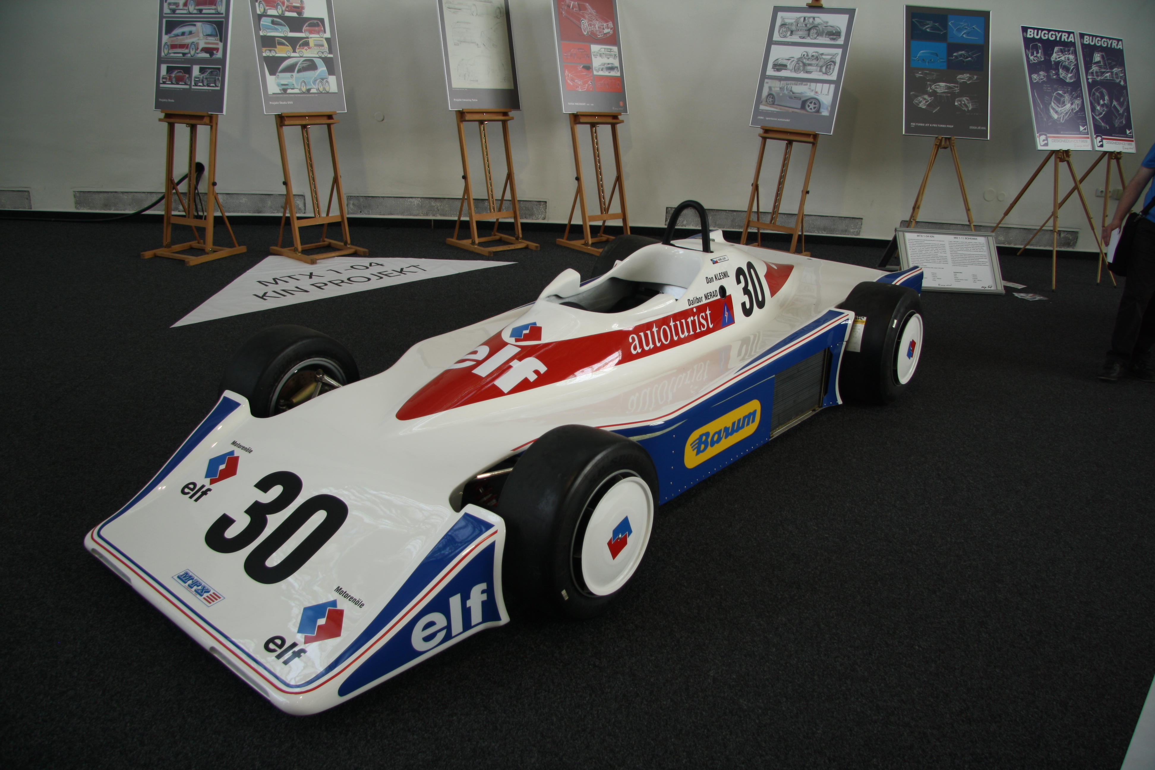 MTX 1-04 KIN PROJEKT at Legendy 2018 in Prague.